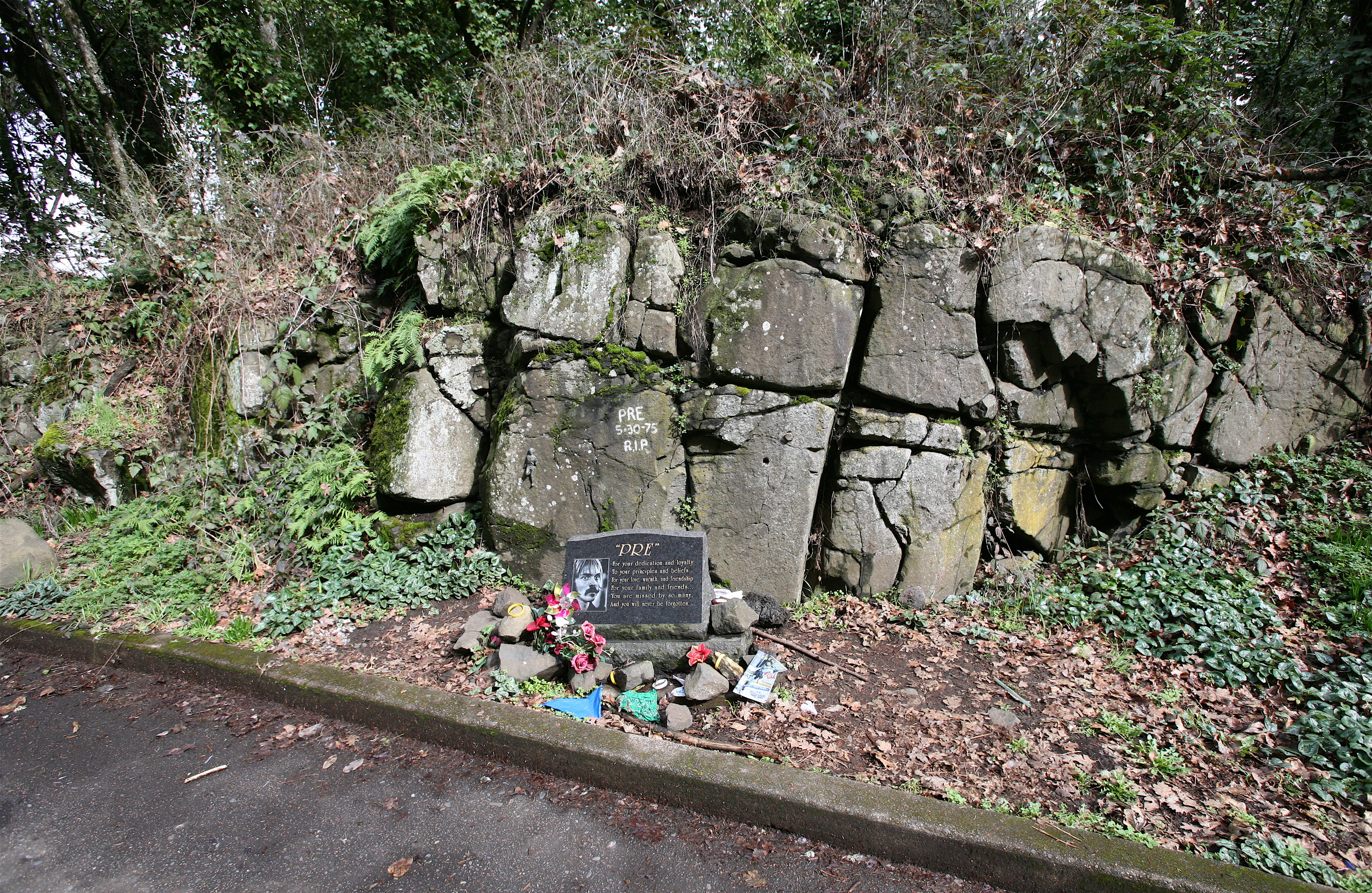 "Pre's rock", a memorial marking the place where Steve Prefontain died in Eugene, Oregon.